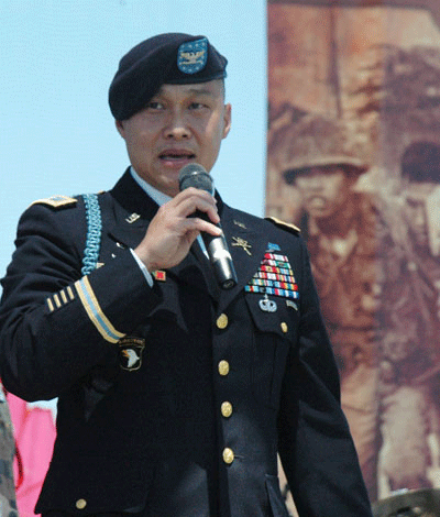 Viet Xuan Luong - VN Cong Hoa